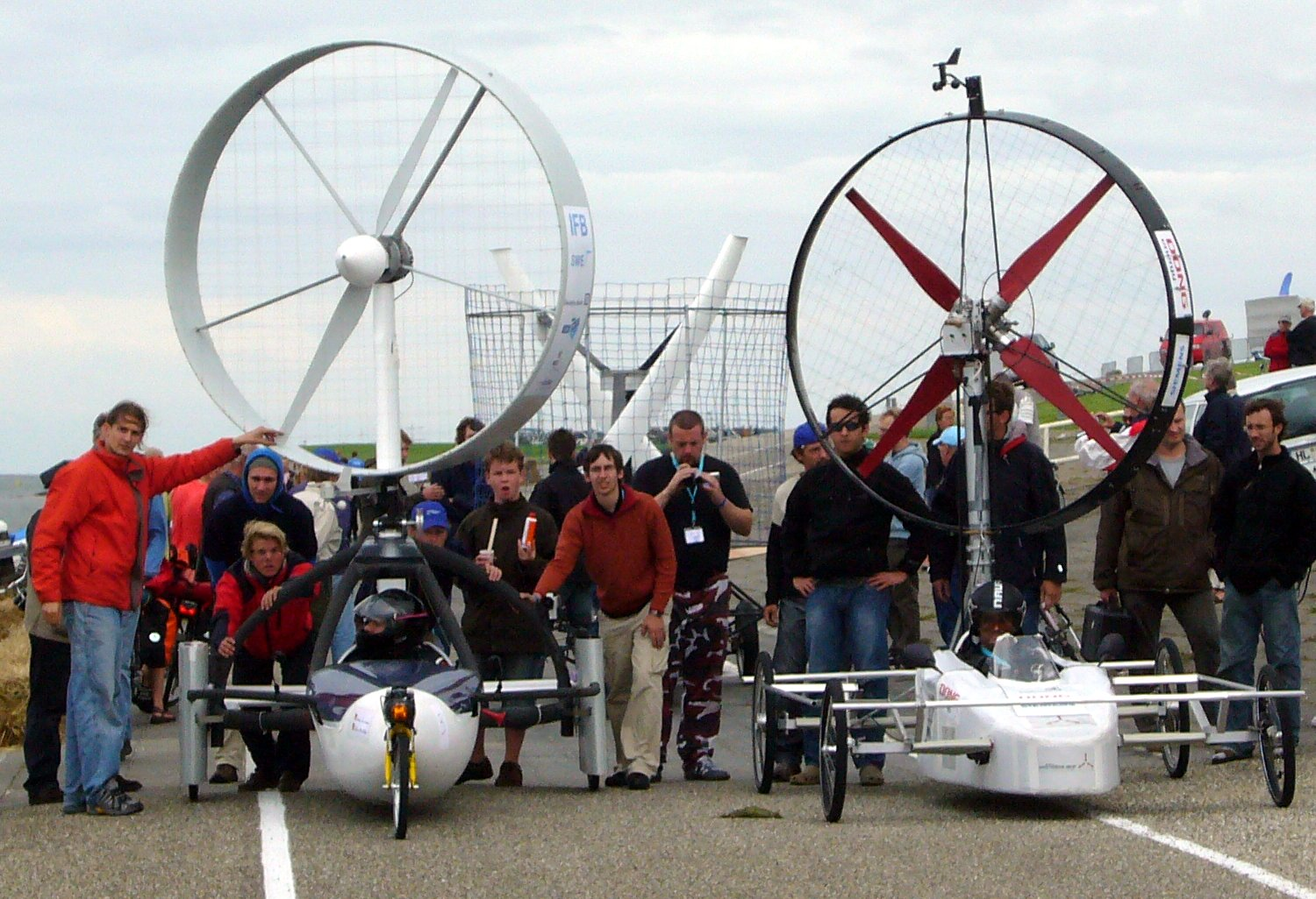 Ventomobile, Baltic Thunder, winD TUrbine racer